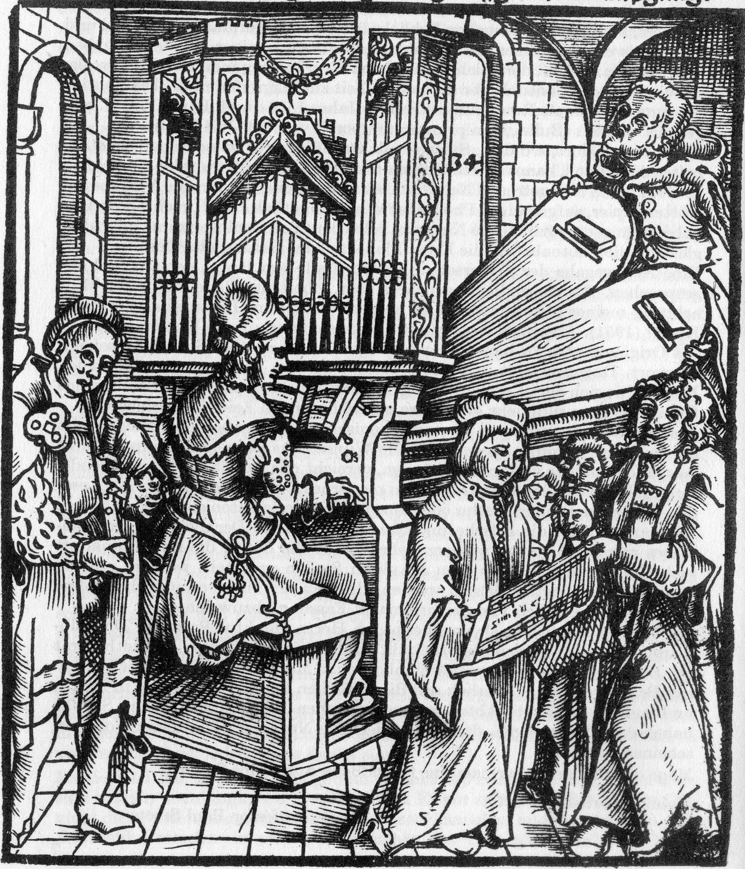 Arnolt Schlick, mirror the organ builder and organist, 1511, title woodcut.